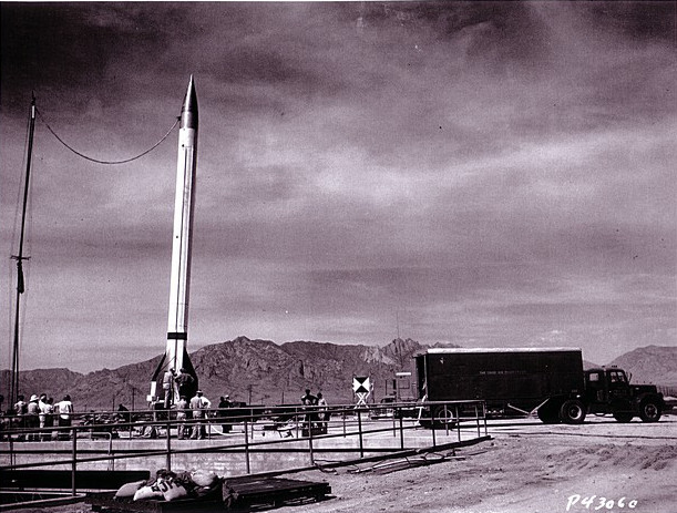 Viking rocket #7